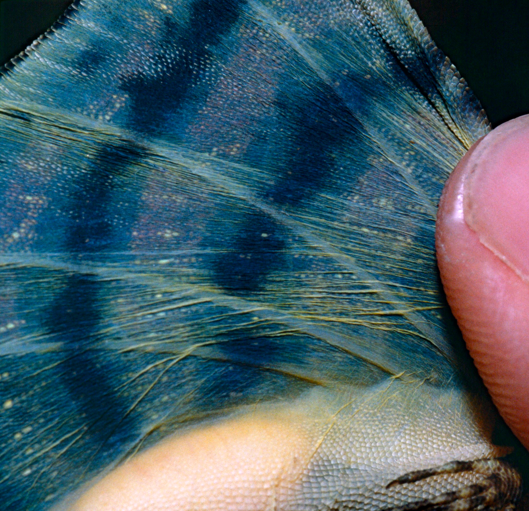 Bako NP, Sarawak, MALAYSIA Scanned slide from 2001